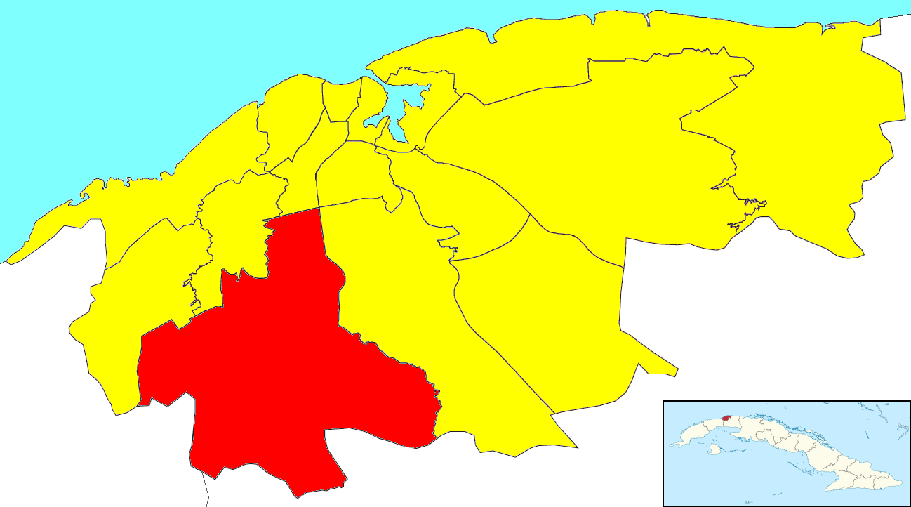 A map of the municipality of Boyeros (shown in red) within the city of Havana (yellow). The little Cuban map in the corner shows Havana (dark red) within the island.